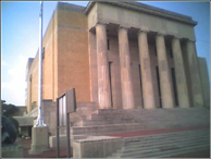 Photographed by Eric Rodgers on June 22, 2005